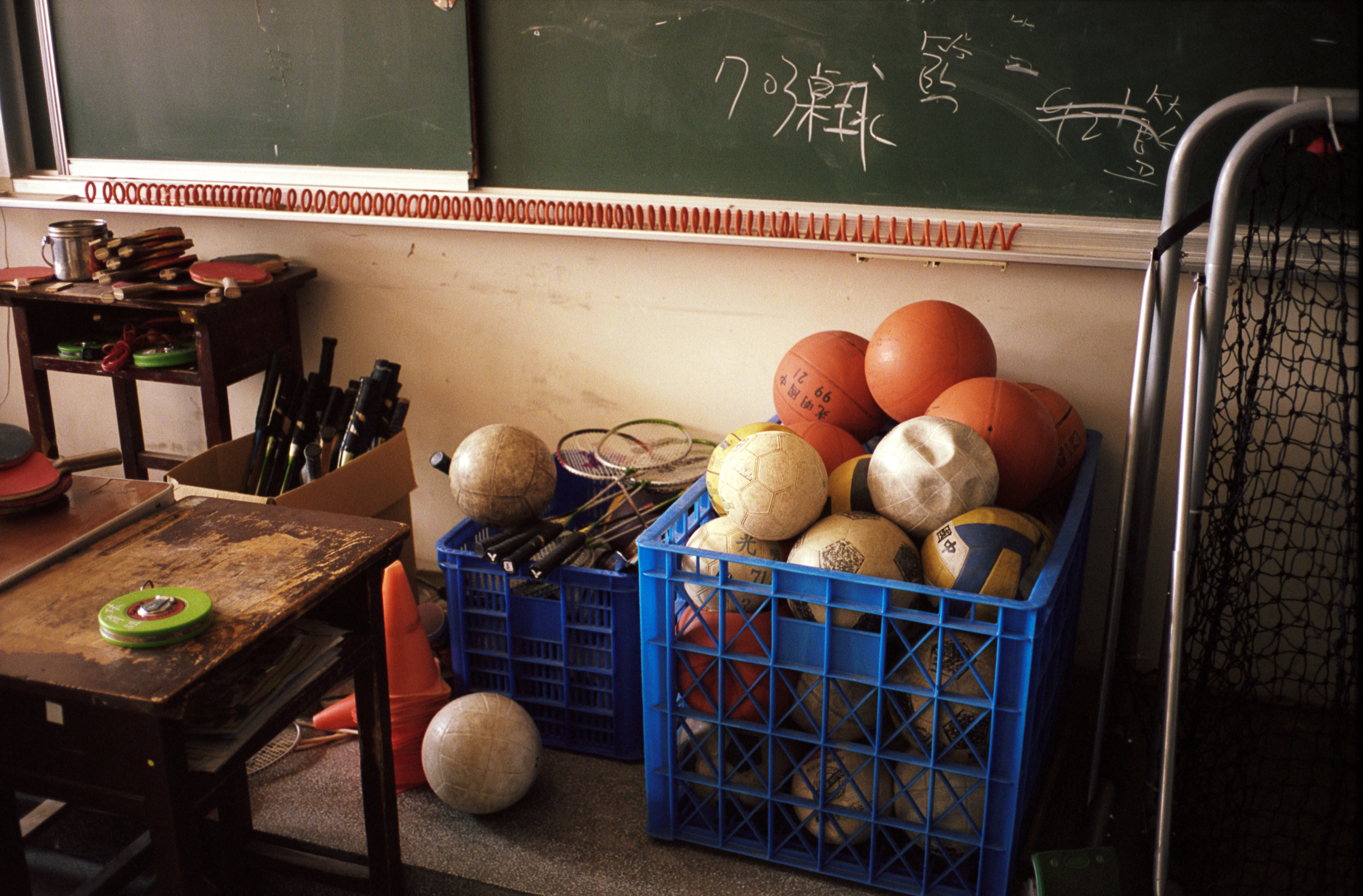 Several Balls in Unknown Junior High School, Taiwan.